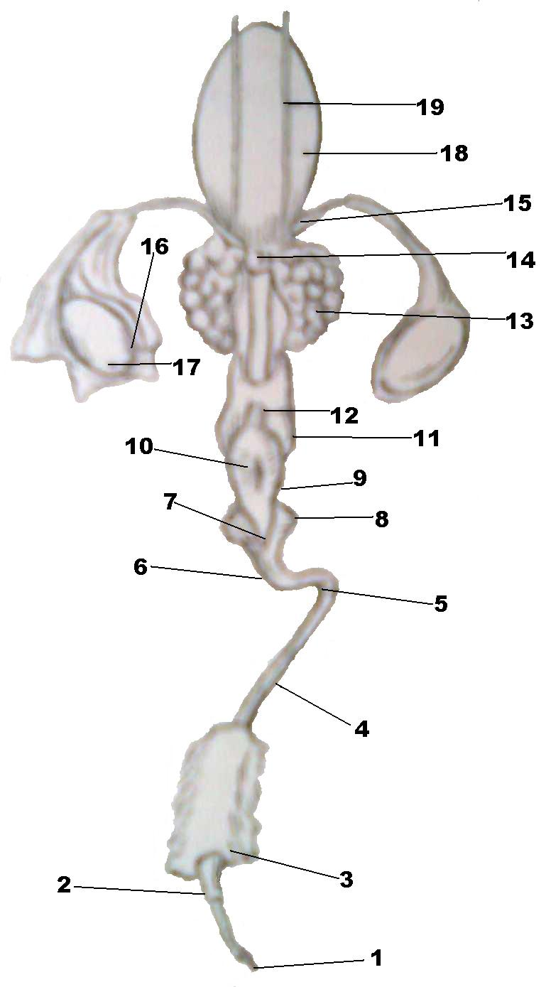 Diagram of the reproductive system of a pig